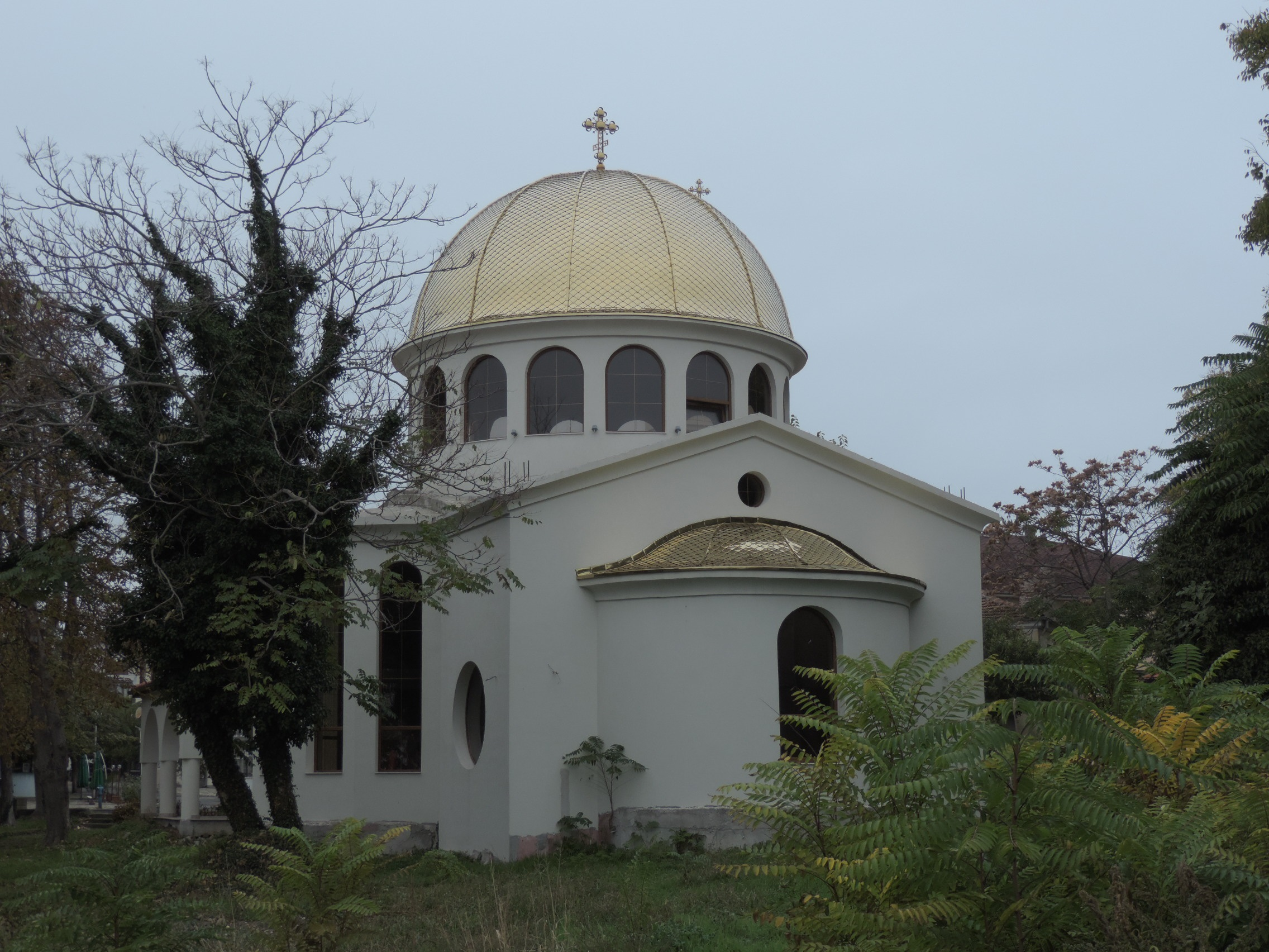 "Saint Tsar Tervel" newly constructed church in Ahtopol, Bulgaria